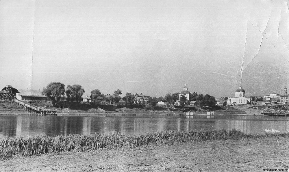 Korotoyaksky monastery